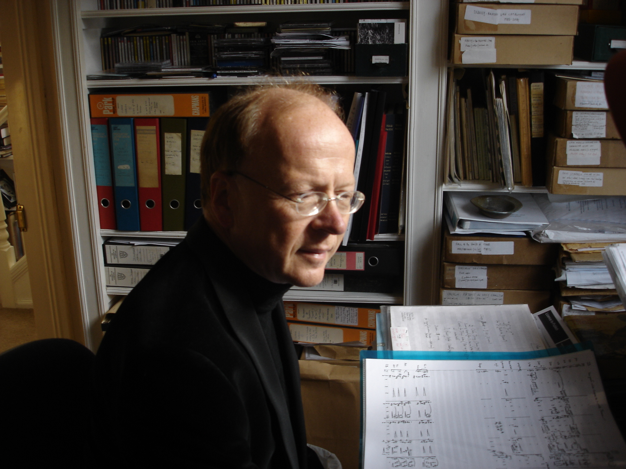 Robert Orledge in his study in Brighton